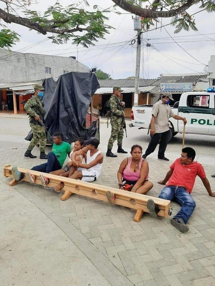 In 2020, during the COVID-19 pandemic, police in Chinu, Colombia, placed residents who broke quarantine in stocks